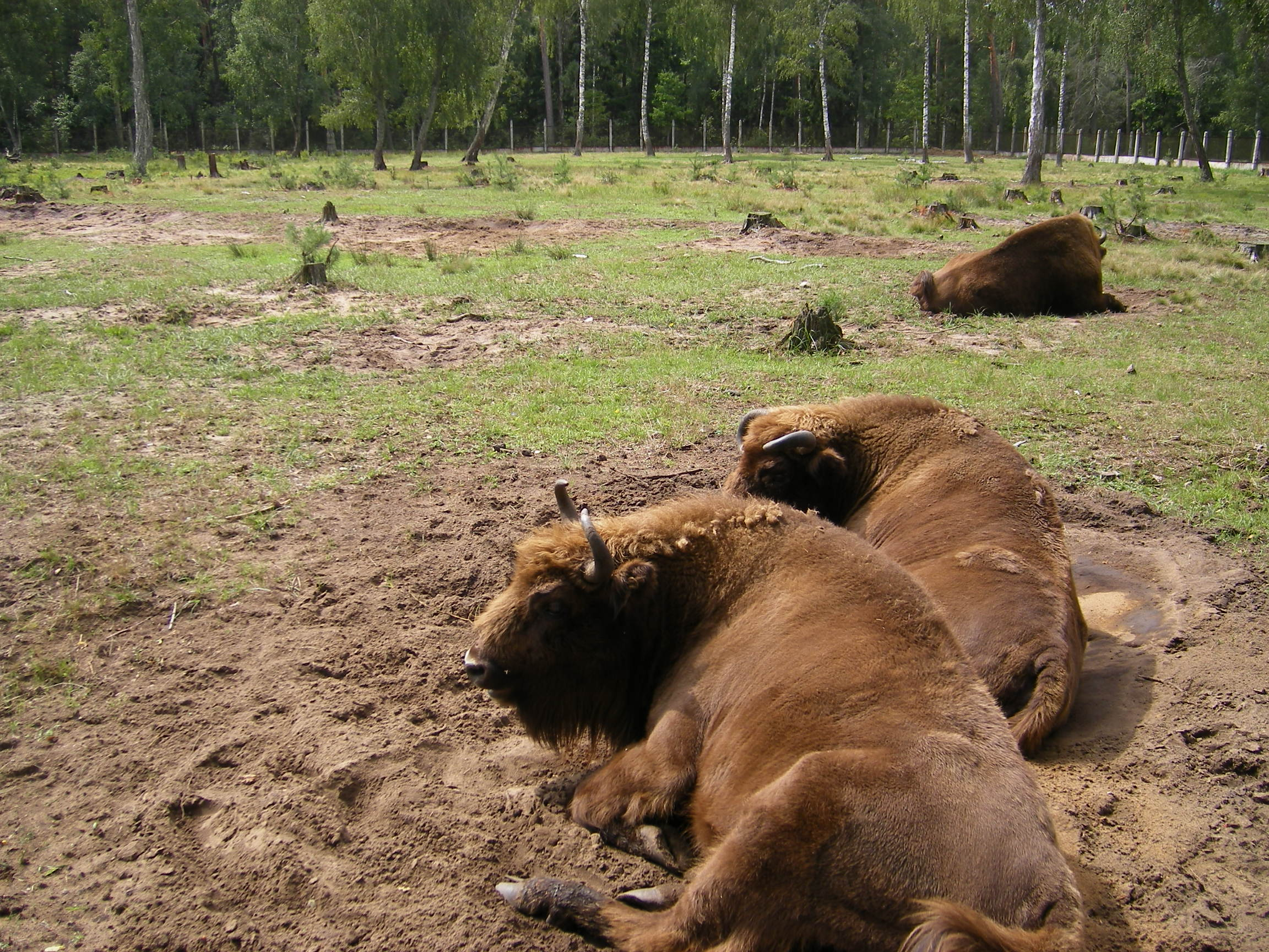 European bison in Kamyanyuki ZOO, Belavezhskaya Pushcha